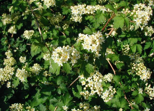 Stephanandra incisa